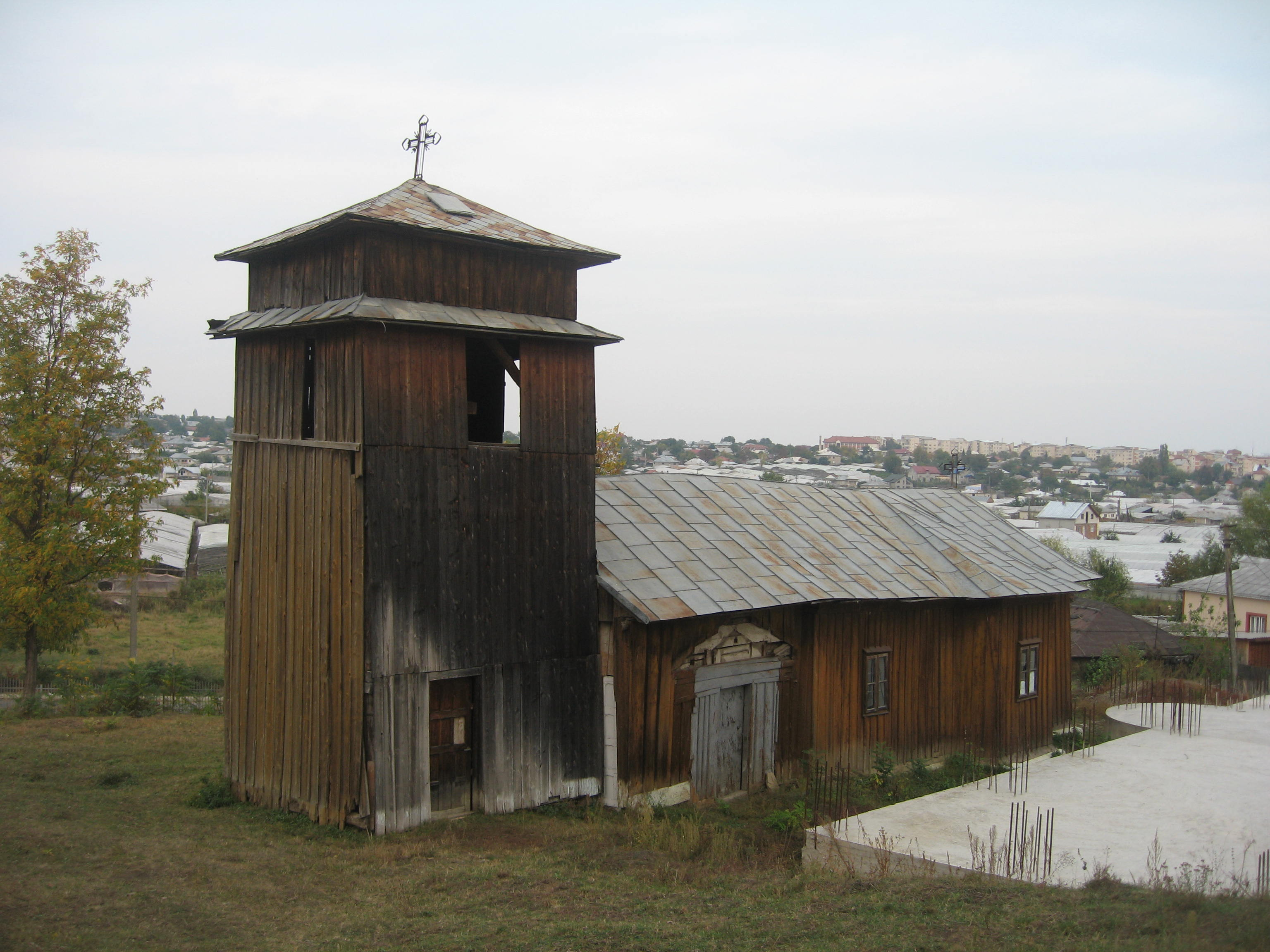 Biserica de lemn din Târgu Frumos